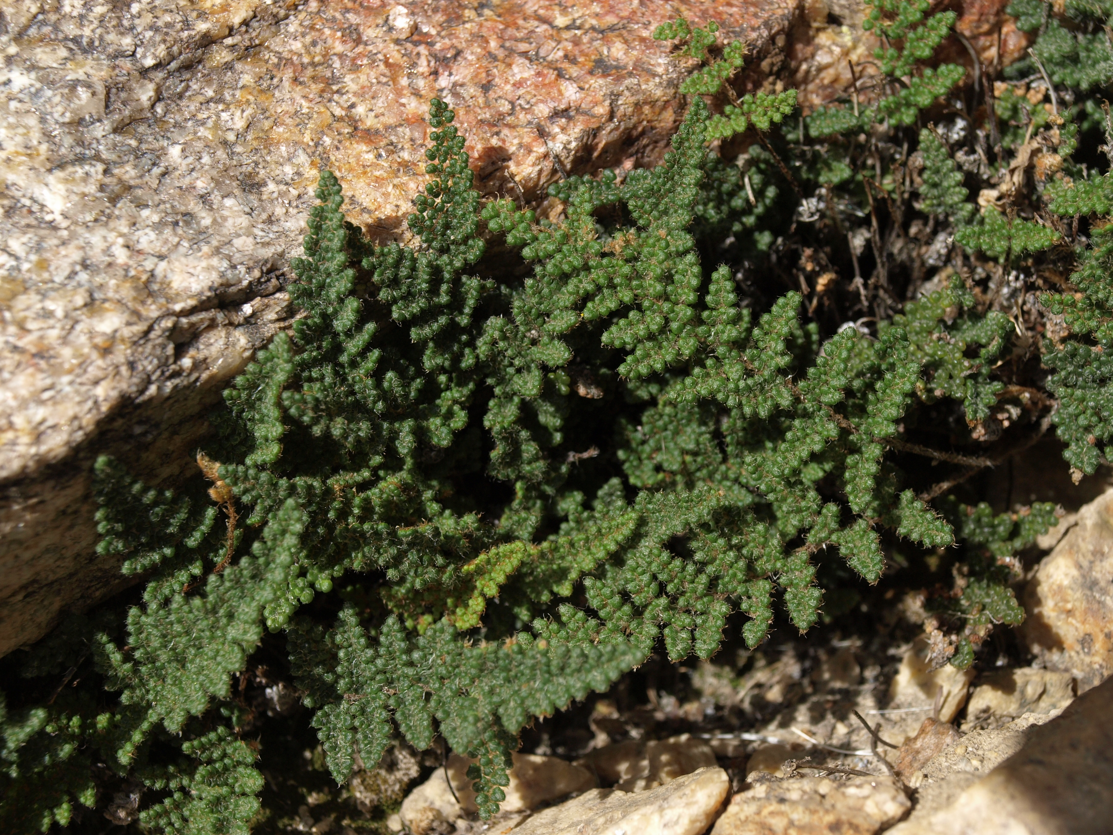 Coastal lipfern, Myriopteris intertexta, California, White Mountains, Falls Canyon, Hammil Valley - Owens Valley watershed, elevation 2024 m (6640 ft). This species is found in moist and/or sheltered rock crevices up to middle elevations in the mountains in northern California and adjacent Oregon and Nevada, with a disjunct location in Utah. It is considered to be of ancient hybrid origin between M. covillei and M. gracillima, and is distinguished from both by the combination of dark green upper leaf surfaces, and lower surfaces with narrowly lanceolate scales not completely obscuring the surface and margins.